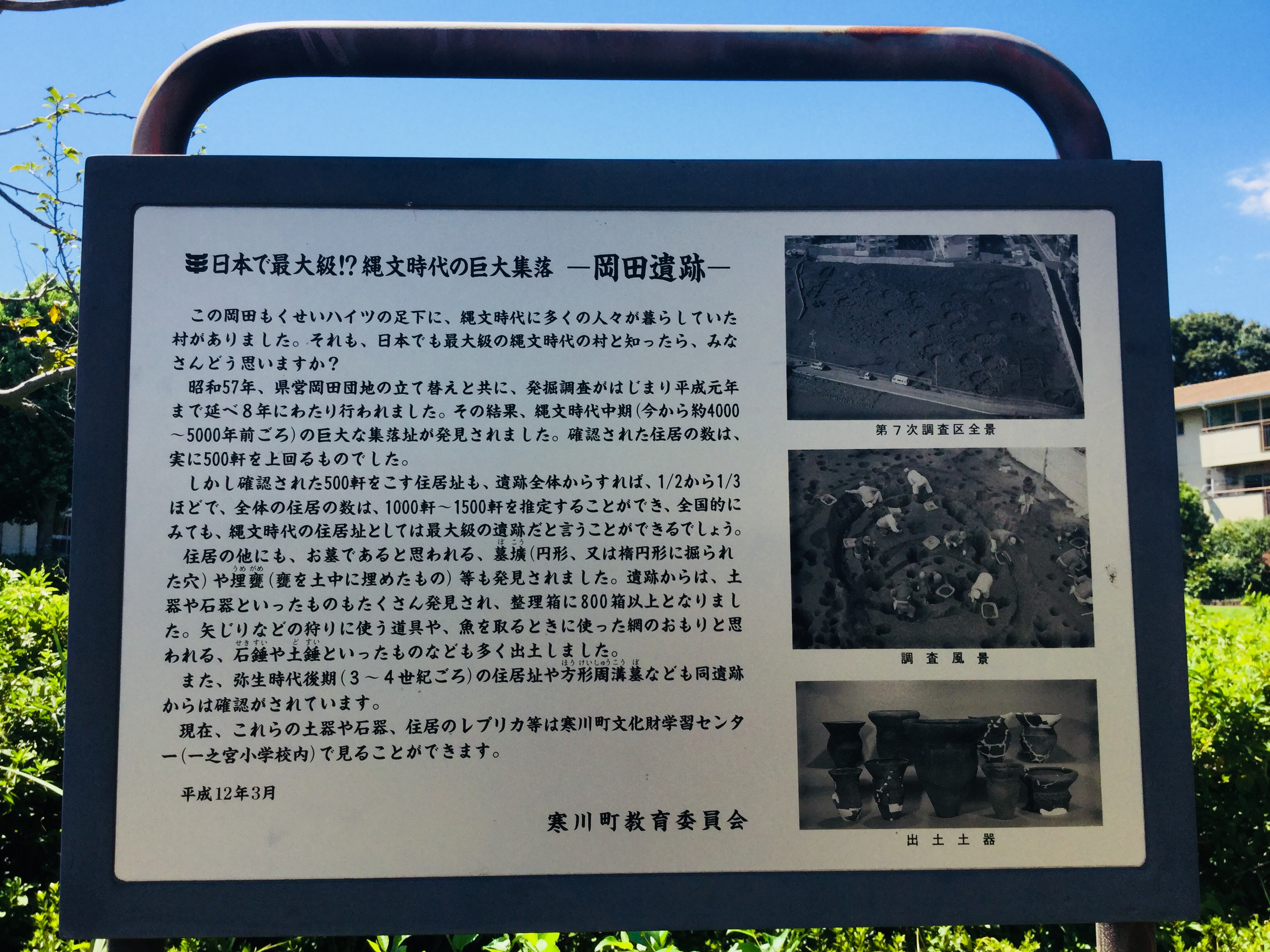 The Okada ruins in Kanagawa,Japan.